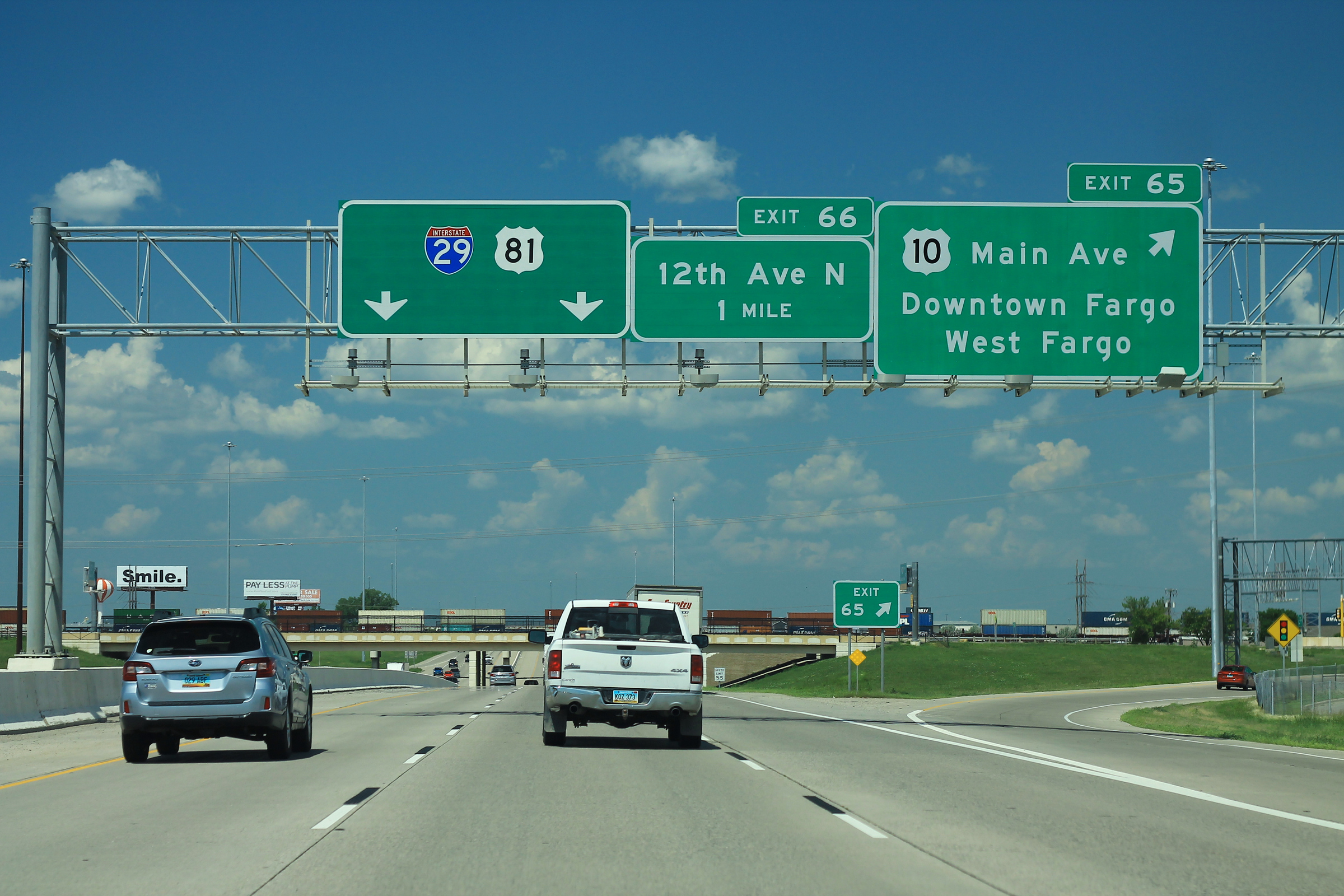 I-29 US81 North - Exit65 - US10 Fargo